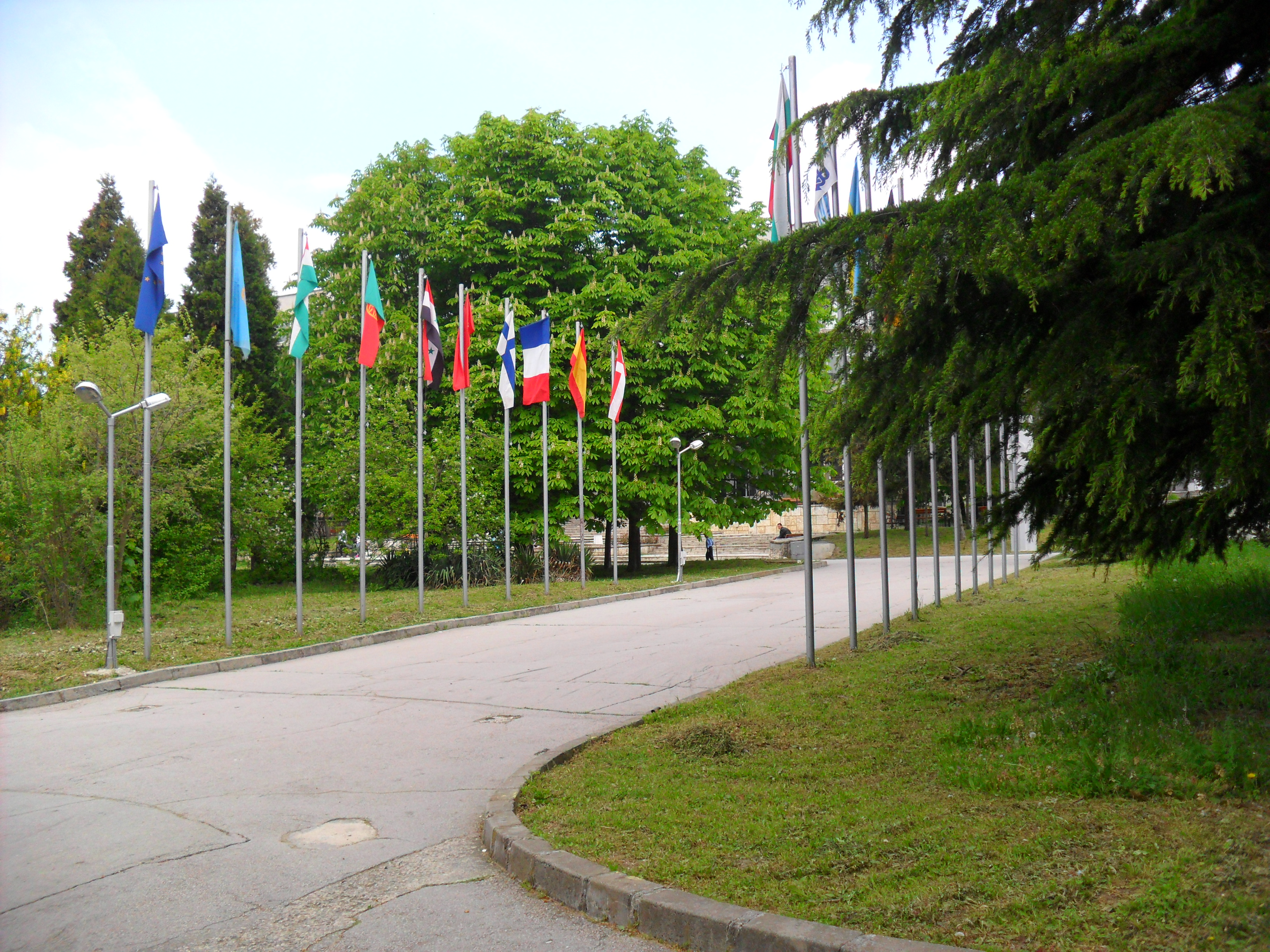 Photo were taken in 1st of May 2015